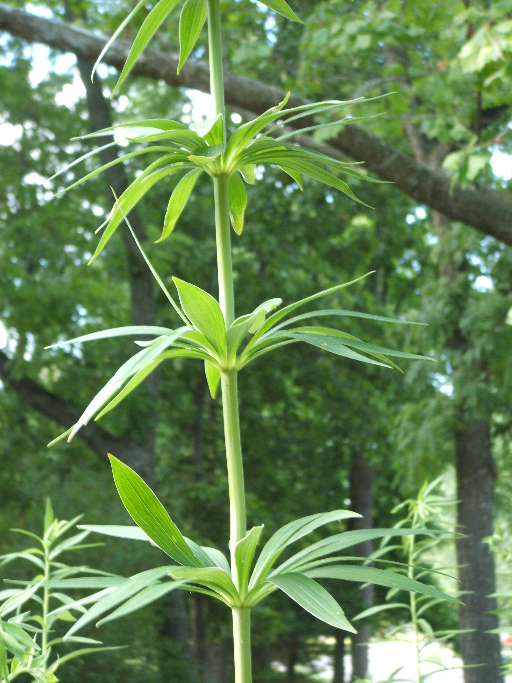 Stem of a Michigan Lily showing the whorl (botany) pattern of its leaves.